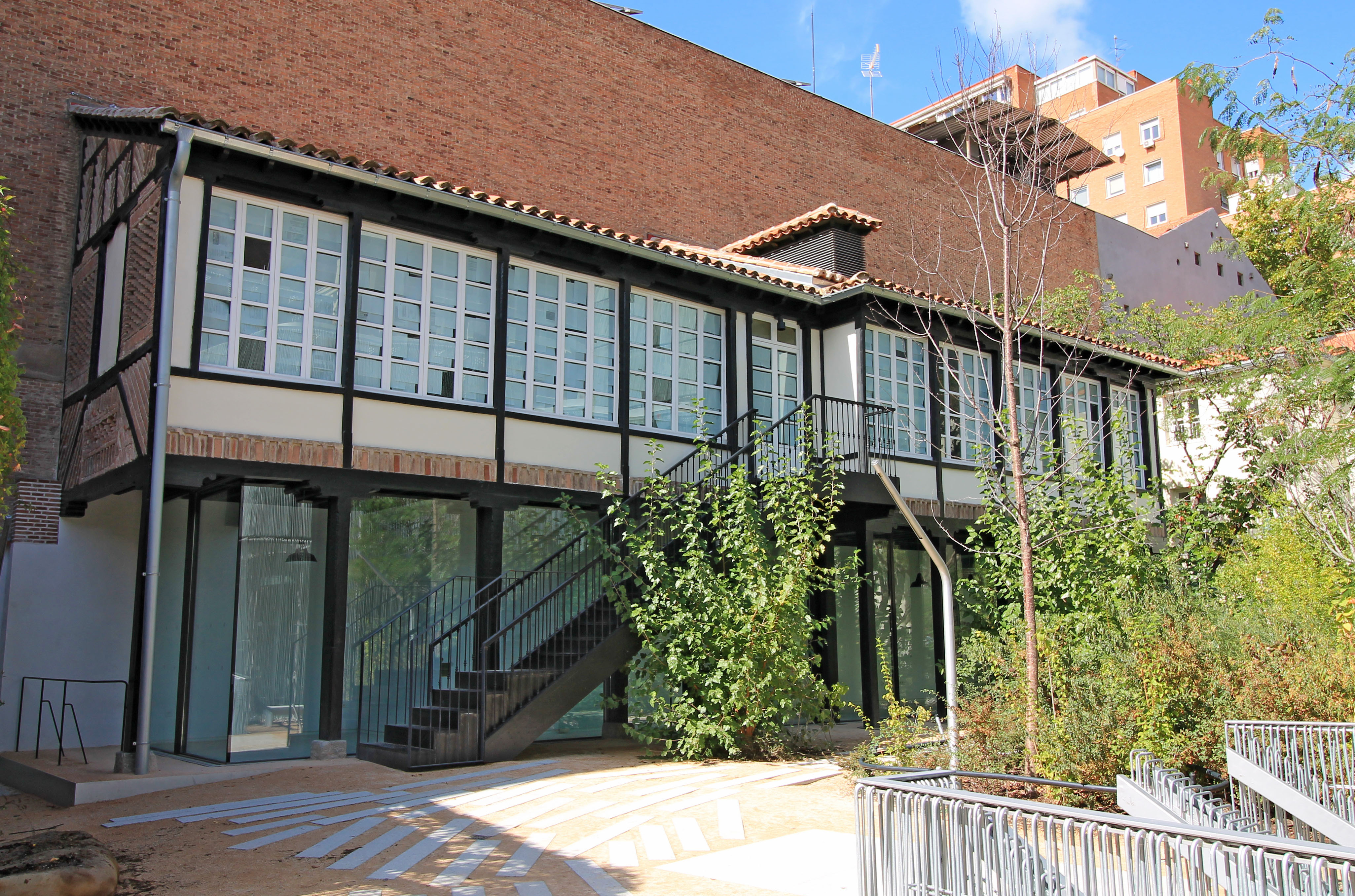 Façade of Macpherson Pavilion at Institución Libre de Enseñanza (nowadays Fundación Francisco Giner de los Ríos) in Madrid (Spain). Building designed in 1908 by Joaquín Kramer Arnaiz and built from 1908 to 1909.